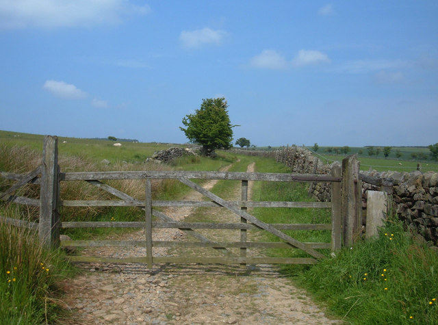 Bridleway to Stainburn Moor This bridleway runs for almost 3 kilometres (1¾ miles) from the B6161 at SE236495 to the Stainburn Moor car park at SE236522. Here we are about 500 metres north of its junction with the B6161.